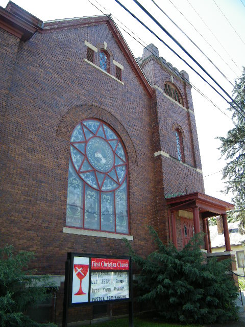 First Christian Church